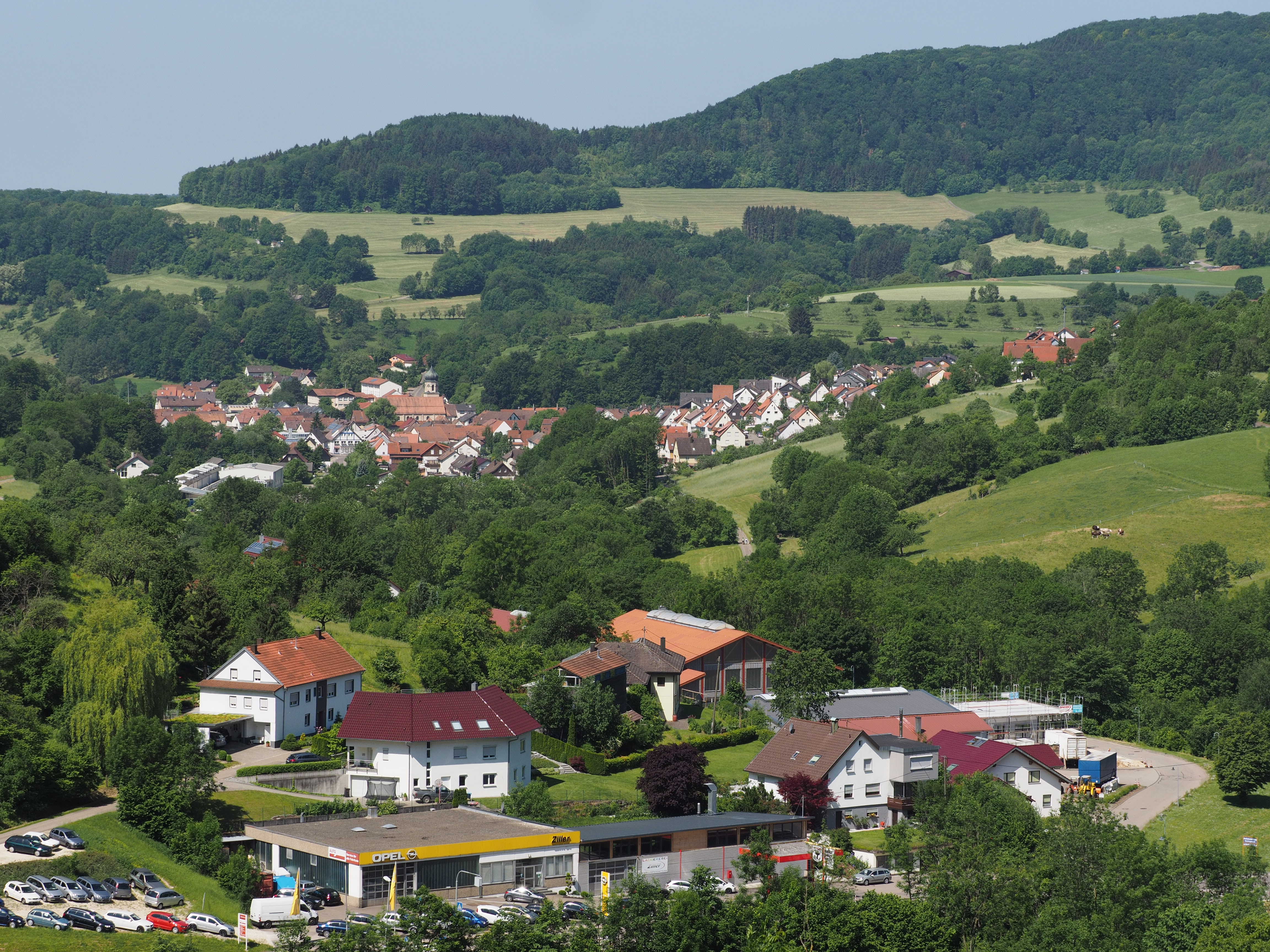 View from Weißenstein towards Nenningen, Schwäbische Alb, Germany